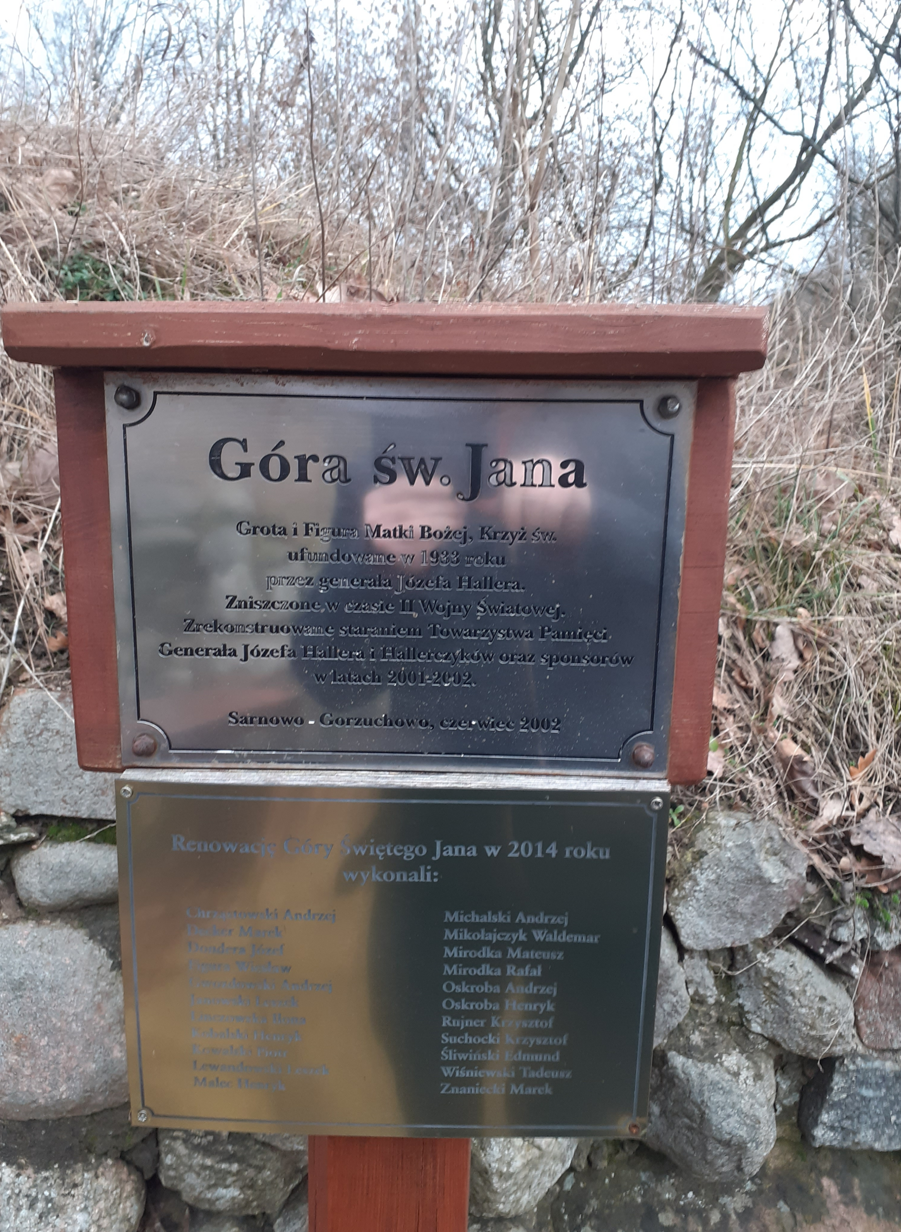 Góra św Jana na której znajduje się grota Matki Boskiej ufundowanej przez Józefa Hallera